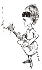 The Paul Weller standard pose adopted by Modfather lookalikes during sound-checks "one-two... one- TWO, one two" - scribbled by yours truly.